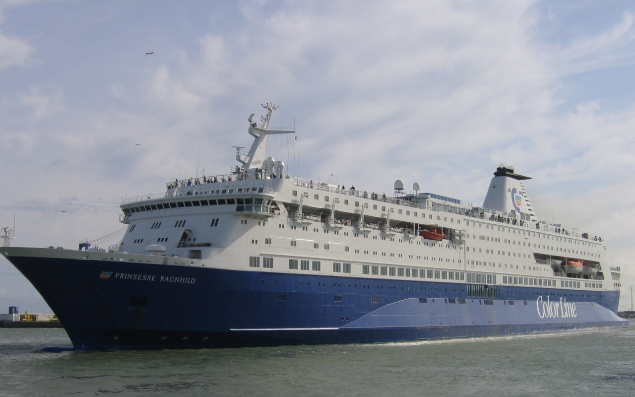 M/S Prinsesse Ragnhild in the harbour of Hirtshals, Denmark